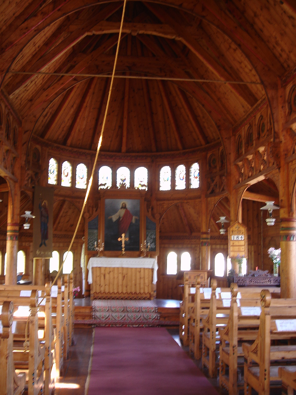 St. olafs church Balestrand, Inside